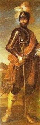 O duque